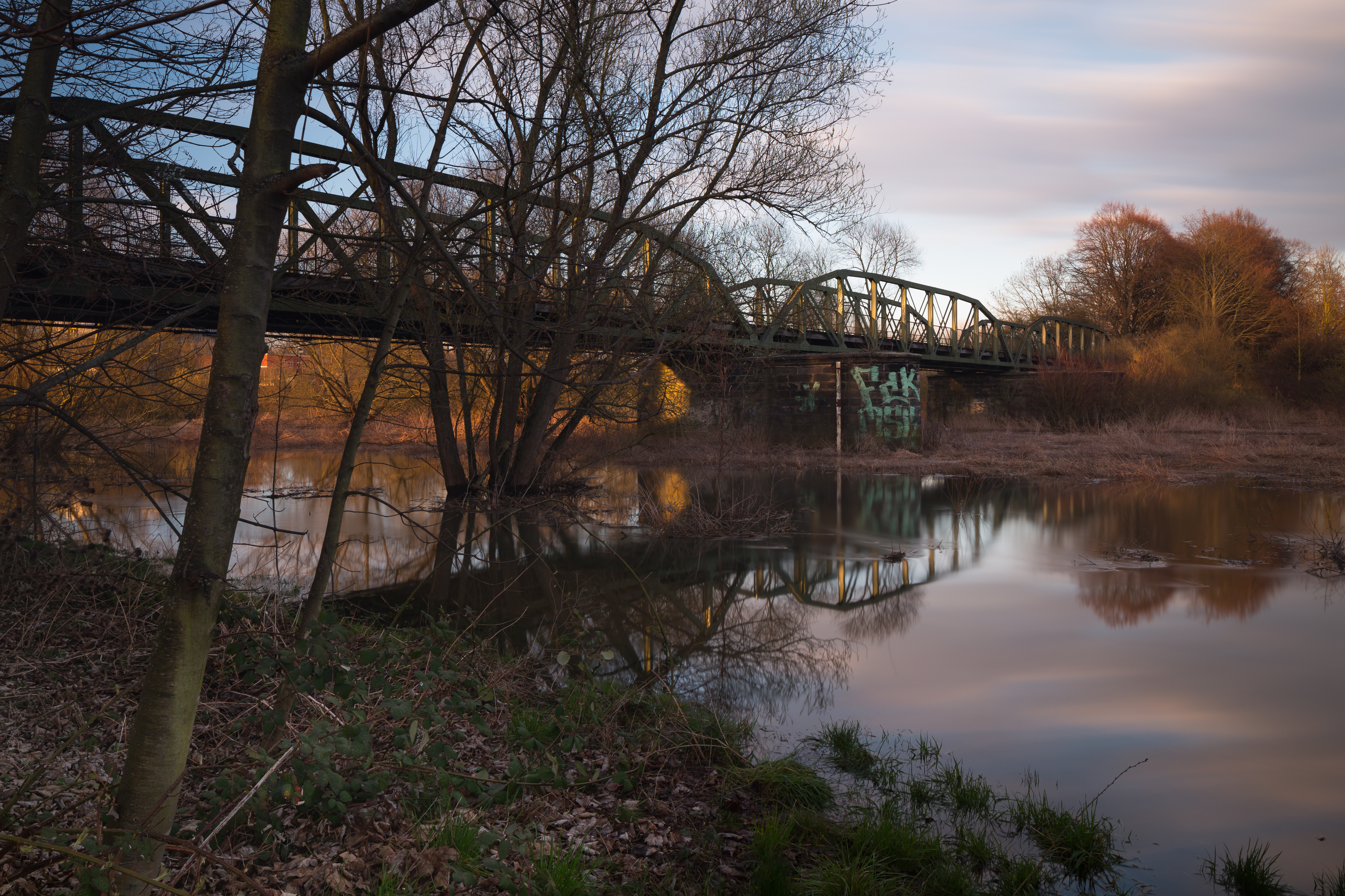 Former railroad bridge of Hannover-Altenbeken route crossing Ihme river located at Ricklinger Masch in Ricklingen quarter of Hannover, Germany.